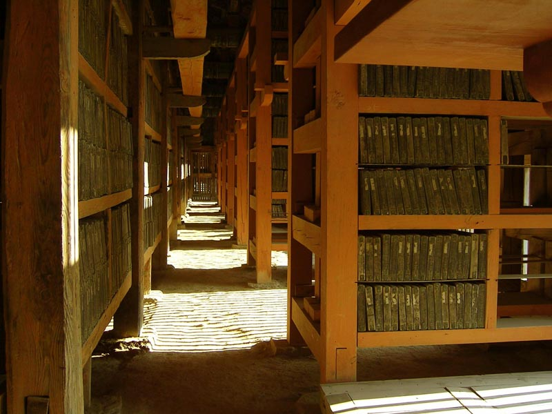 Tripitaka Koreana in the Haeinsa temple, Hapcheon County, North Gyeongsang province, South Korea